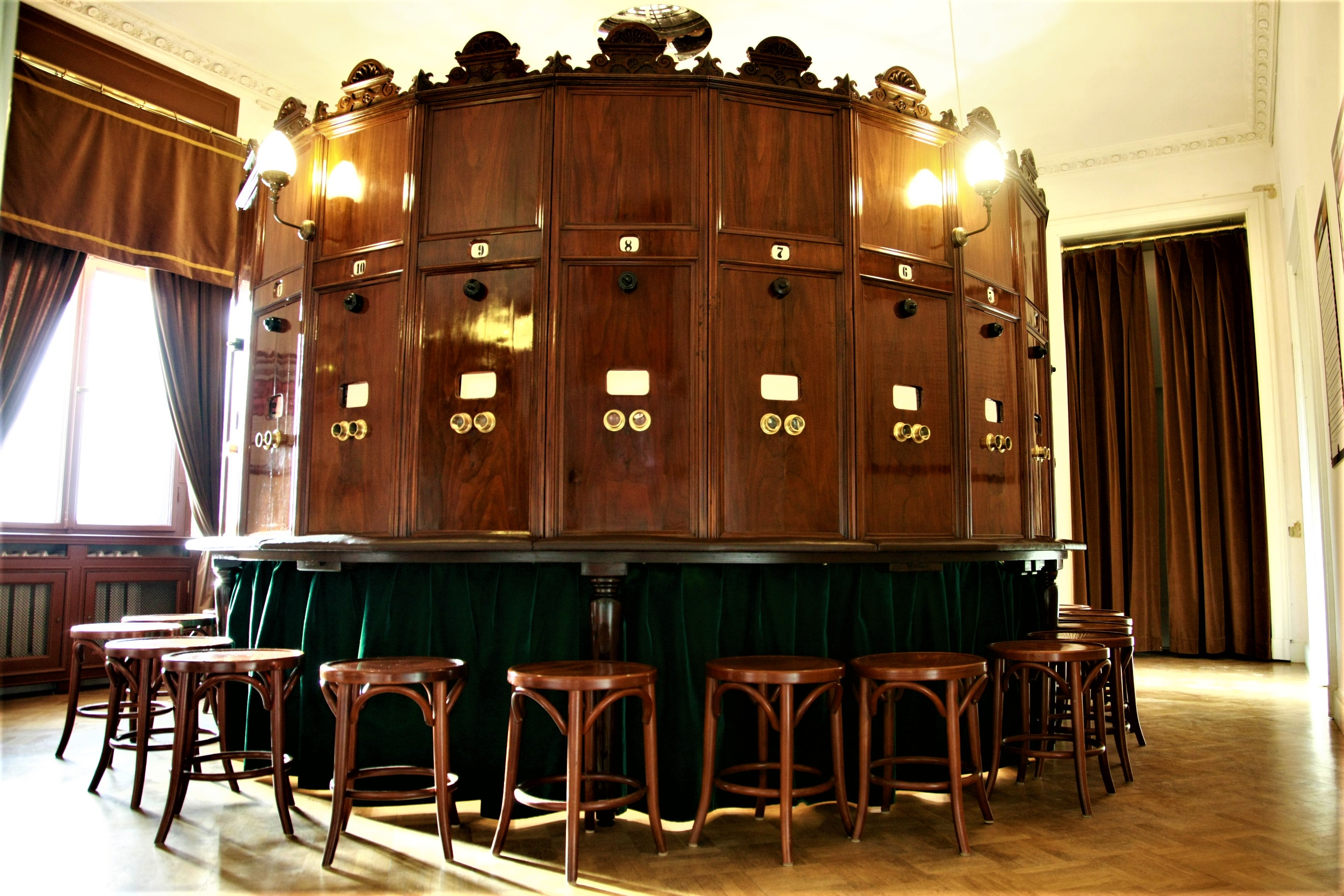 Kaiserpanorama of Lodz